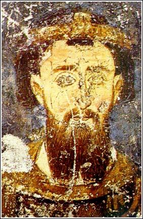 13th-century fresco from the Mileševa monastery depicting King Stefan the First-Crowned